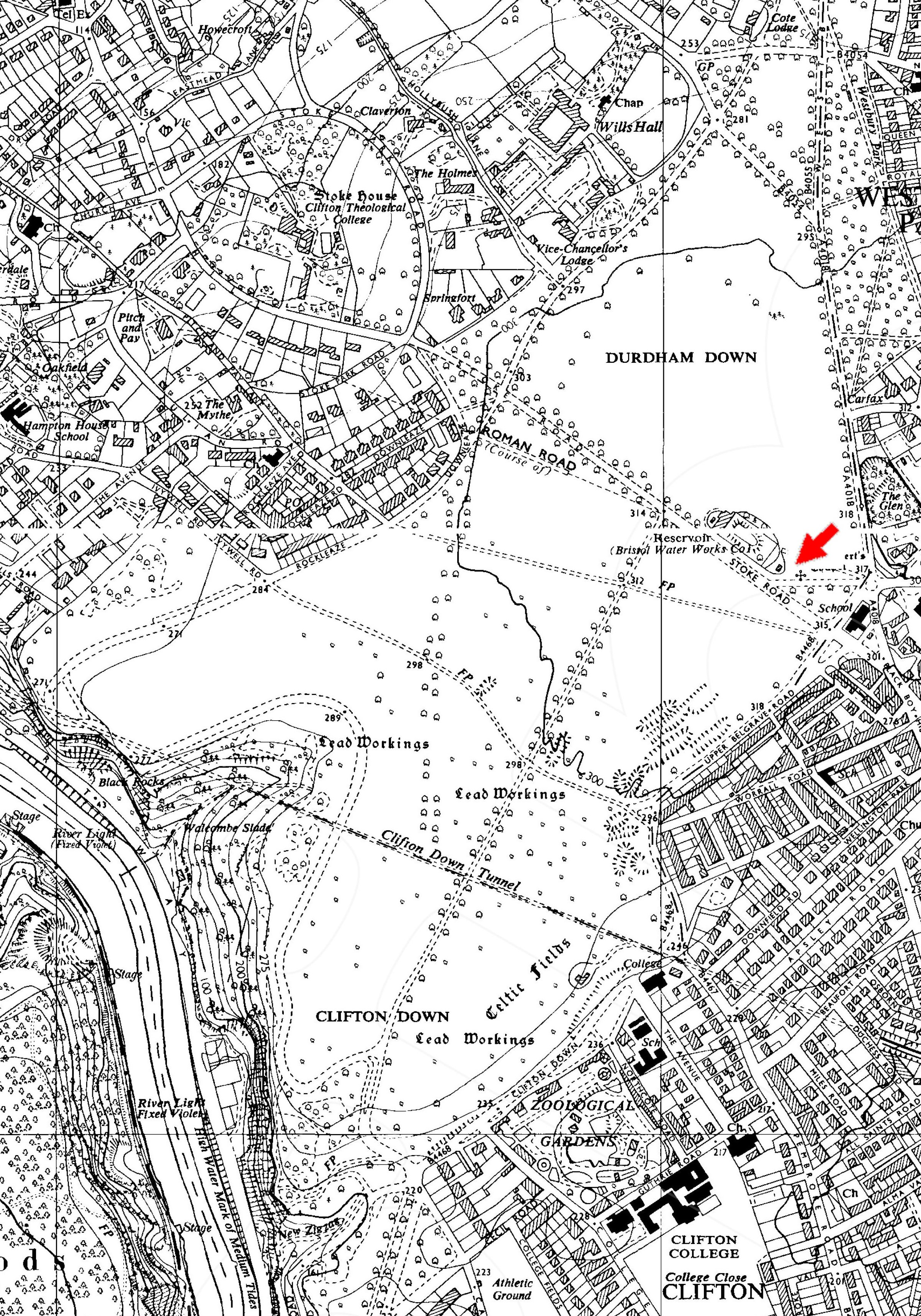 1955_Ordnance Survey map of Durdham_Down